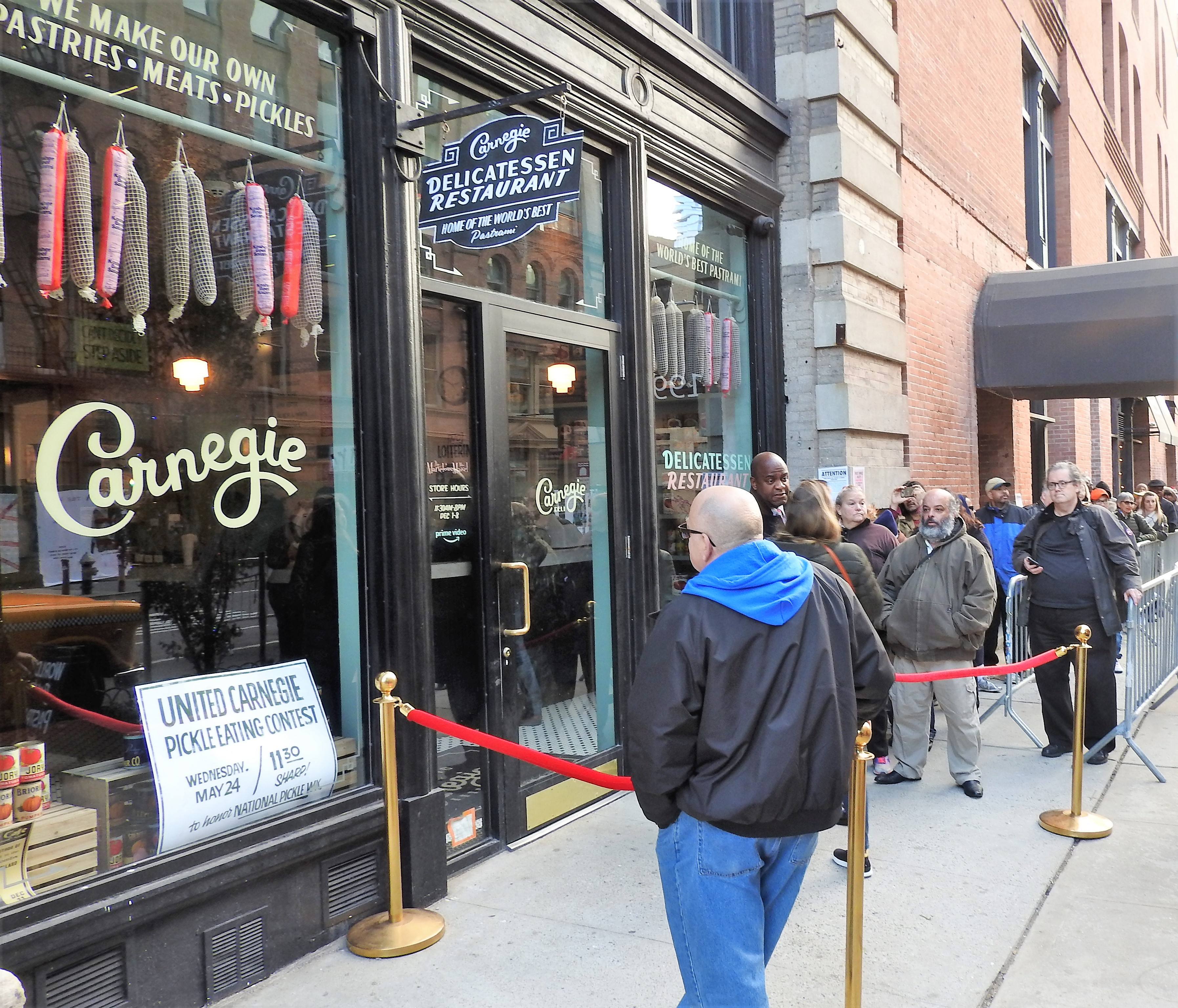 Looking south at temporary pop-up store with people queuing